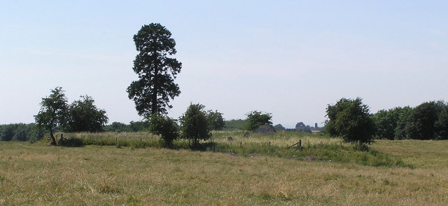 The site of a deserted medieval village at High Worsall, North Yorkshire, with its ruined church in the background